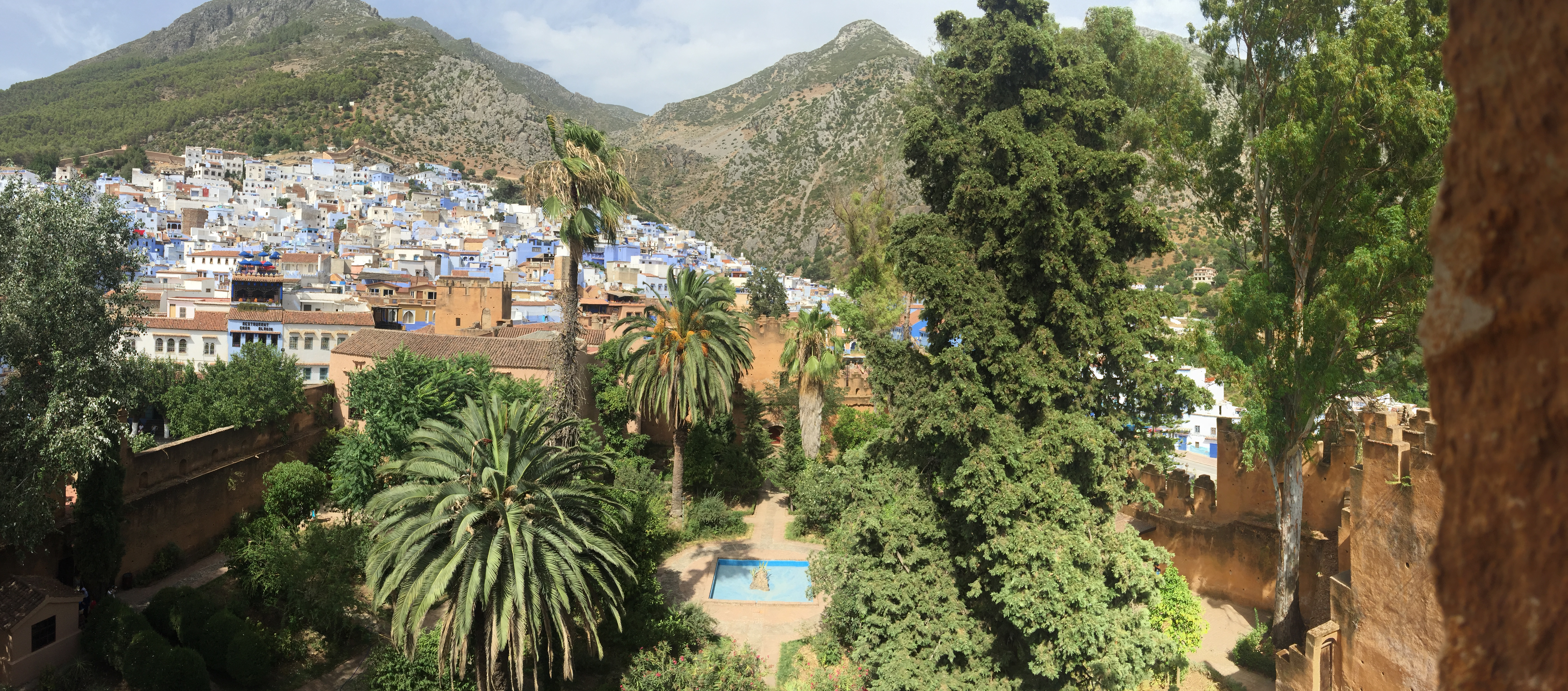 Chefchaouen - Morocco